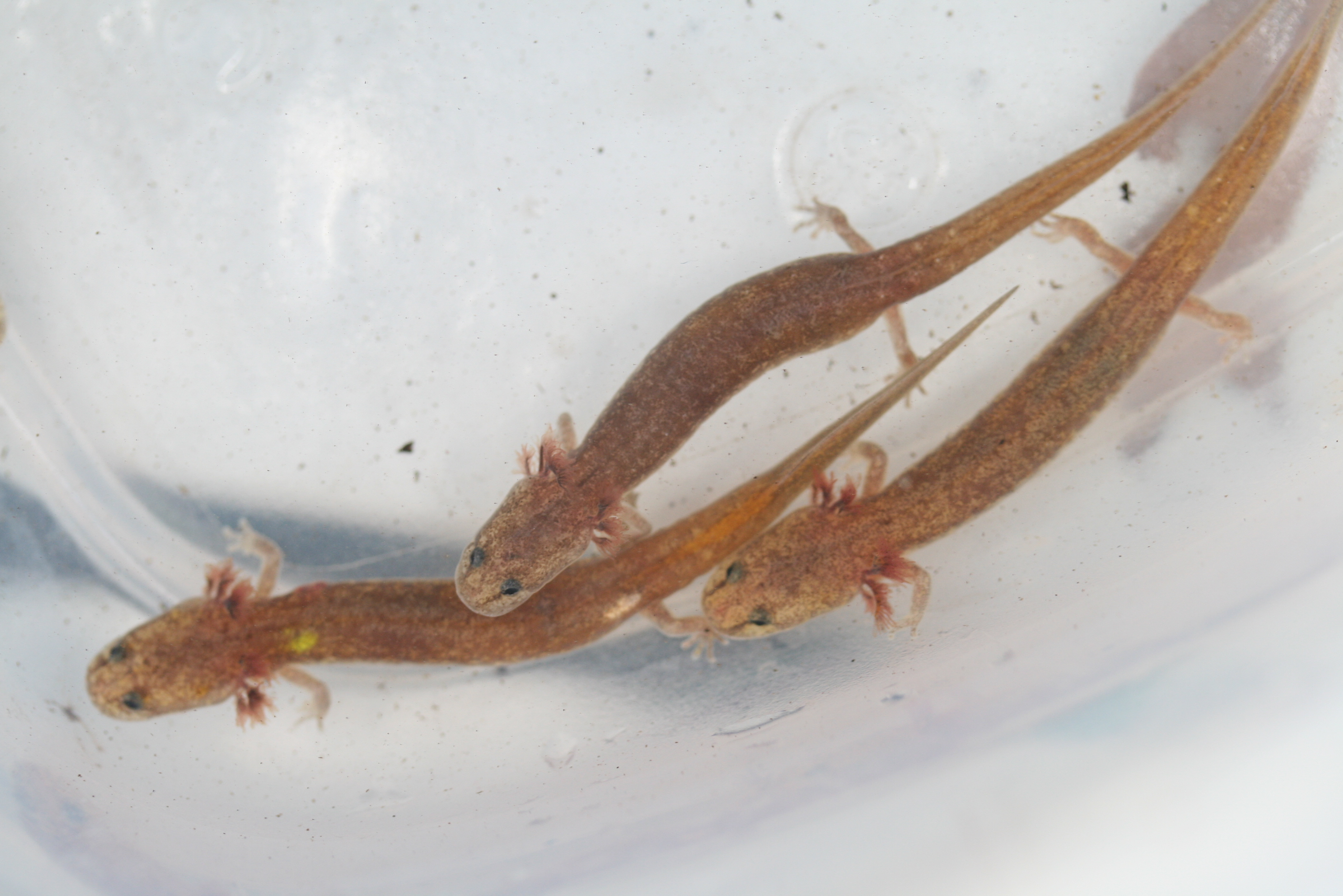 Image of a Georgetown salamander (Eurycea naufragia) in its natural habitat